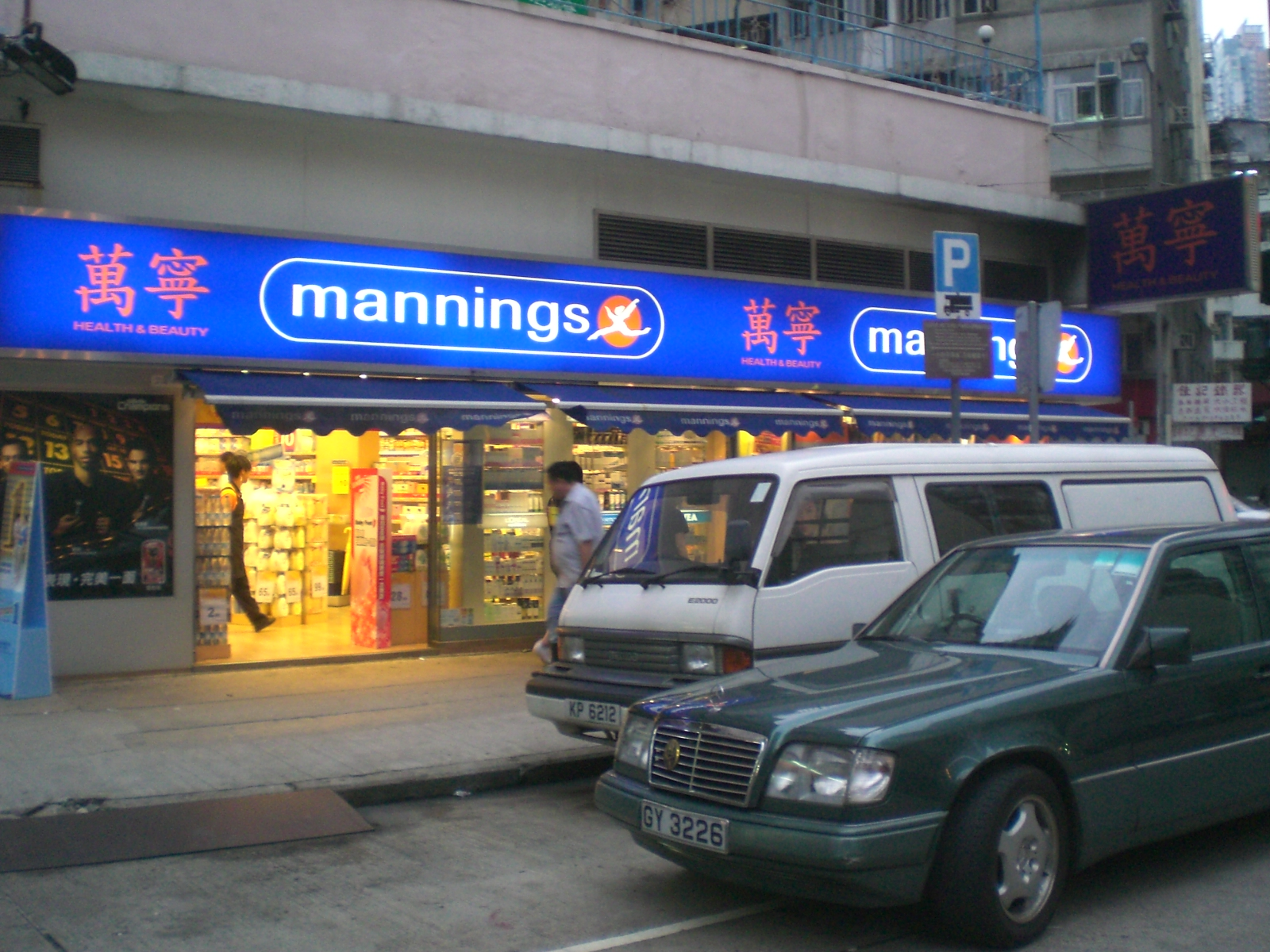 大角咀 福全街 黃昏 萬寧